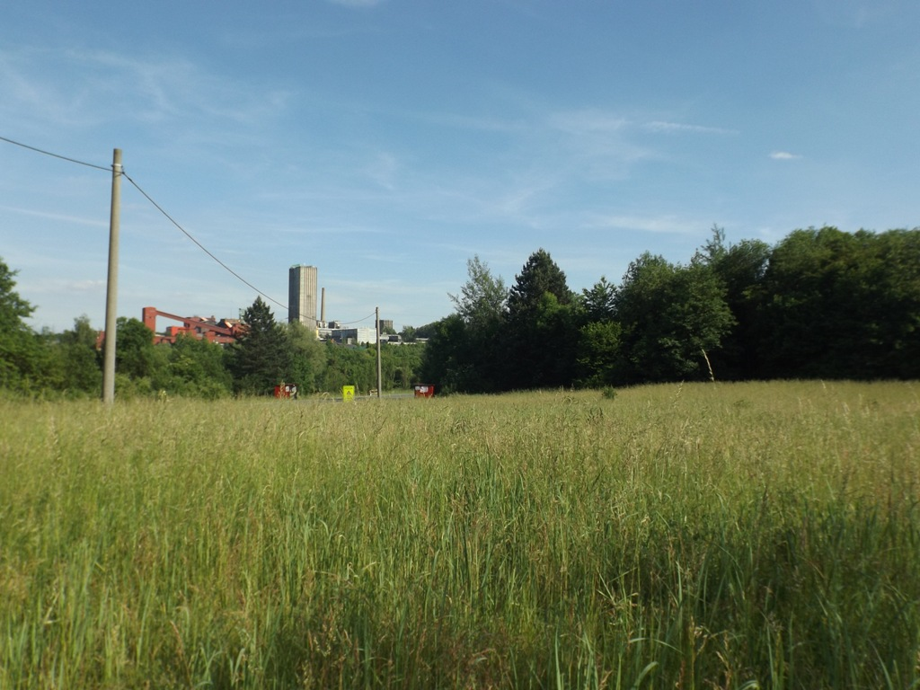 Part of Orlová town - former quarter Veverka